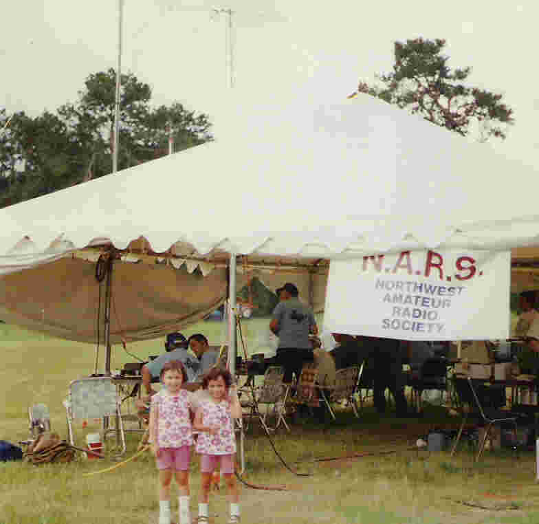 Annual "field day" events pit amateur radio operators with their club. Here is W5NC serving the greater FM1960 area of Houston, TX (USA)